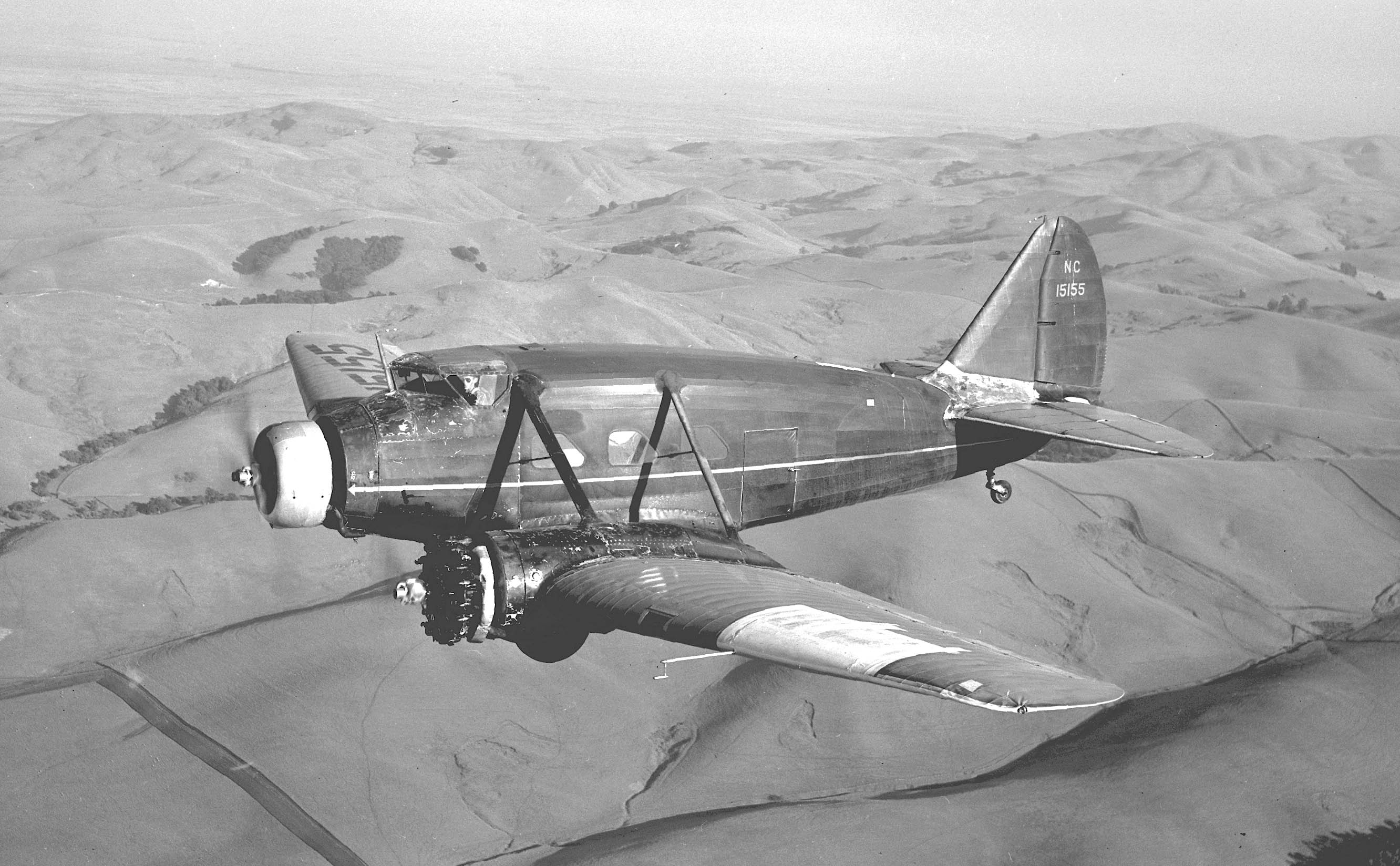 Leaving Buchanan Field, Concord, to fly to Napa on October 31, 1947. It had recently arrived from Alaska. It was being flown solo by Bob Gardner a WWII B-24 pilot.